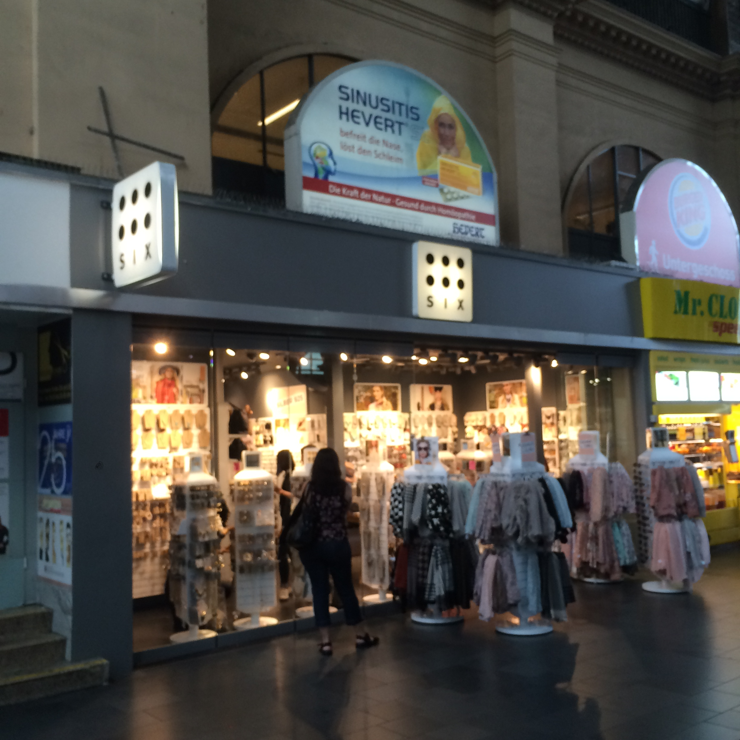 Six Shop